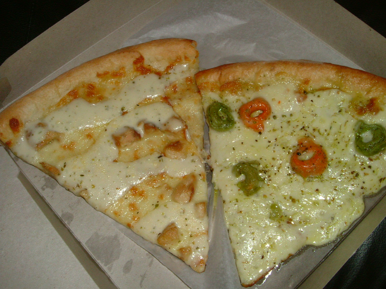 Photo by Derek Morrison, 2/21/07.